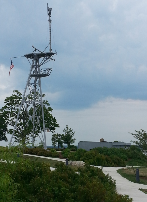 Foremast and bridge shield of USS Portland (CA-33), Fort Allen Park, Portland, Maine